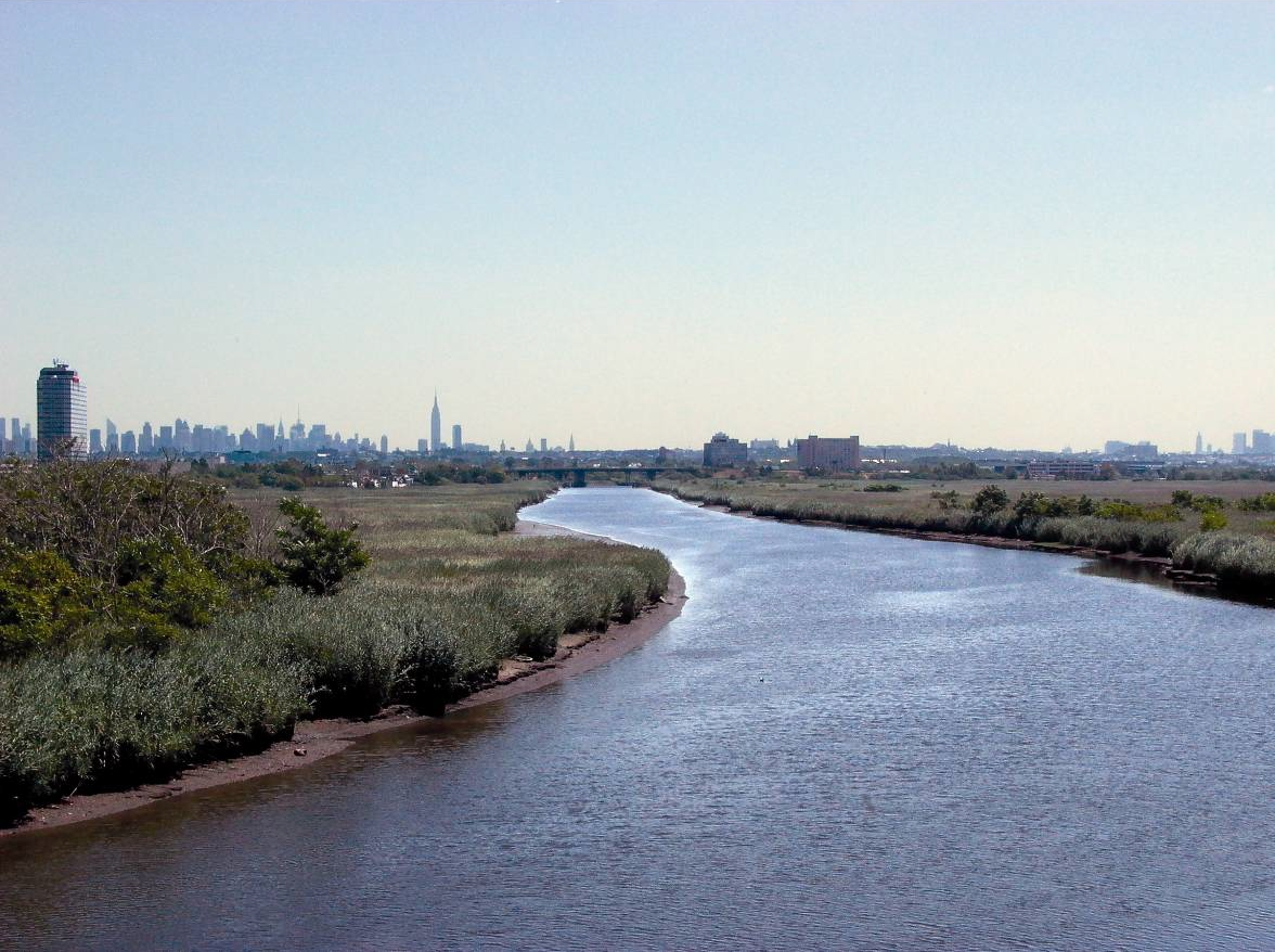 View of Berry's Creek Canal, Bergen County, New Jersey. The canal connects Berry's Creek with the Hackensack River. New York City is seen in the distance.